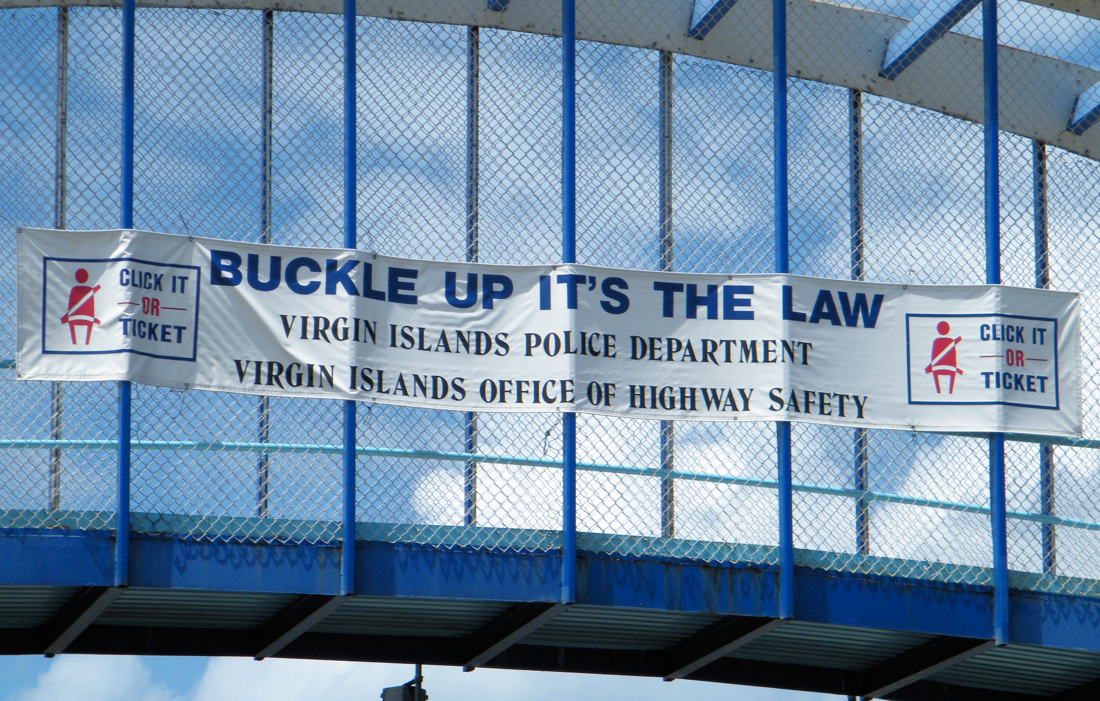 A Click It or Ticket-sponsored banner in Charlotte Amalie.